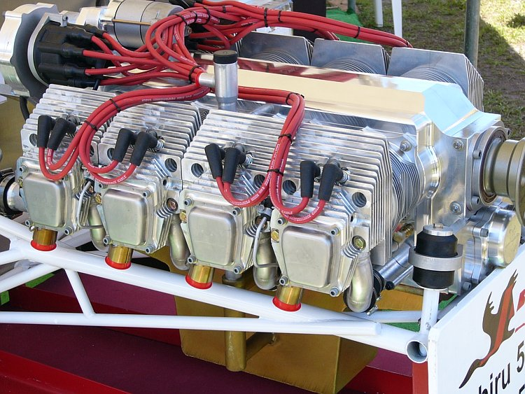 I took this photo of a Jabiru 5100 engine